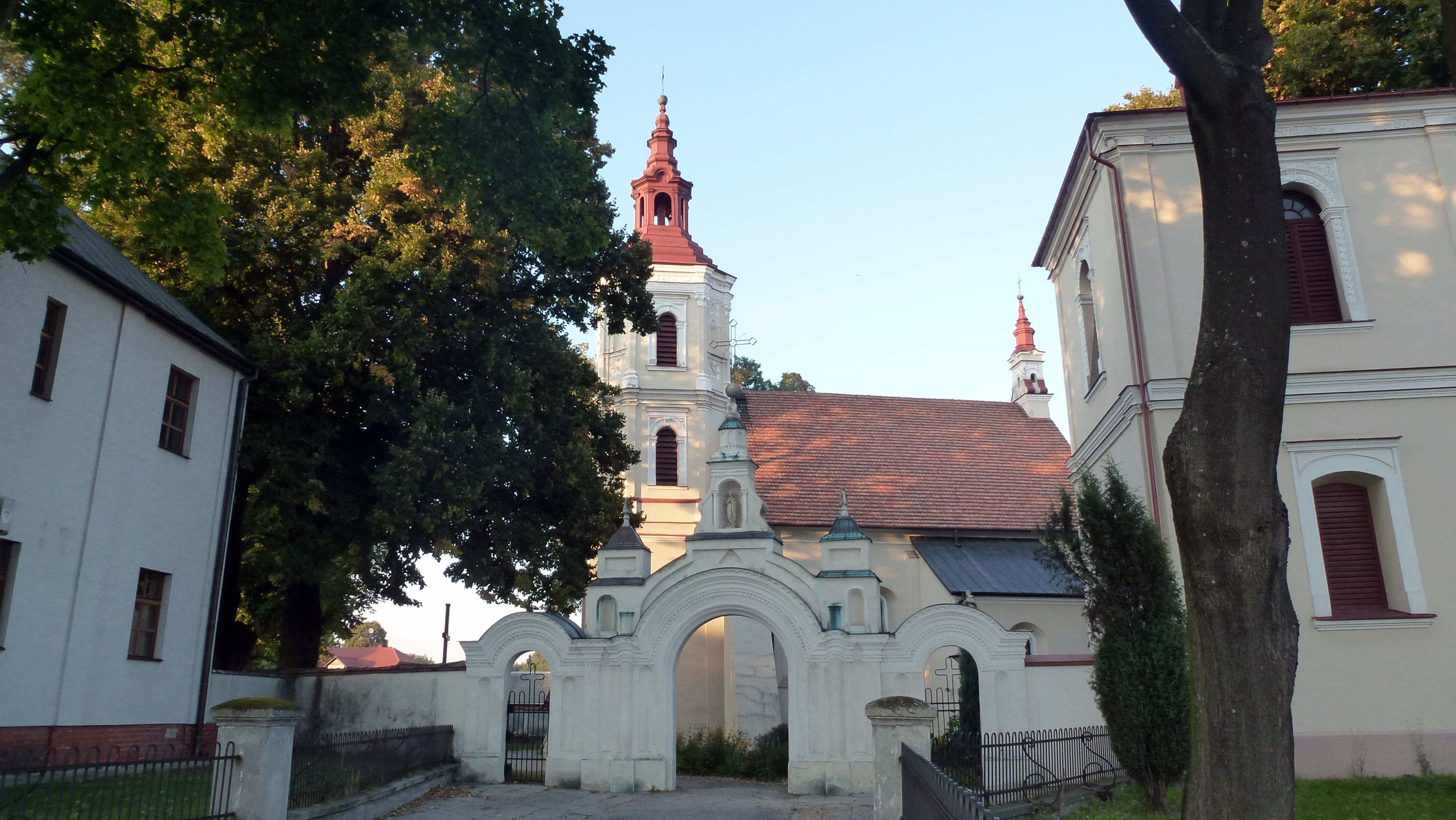 Szczebrzeszyn, Poland